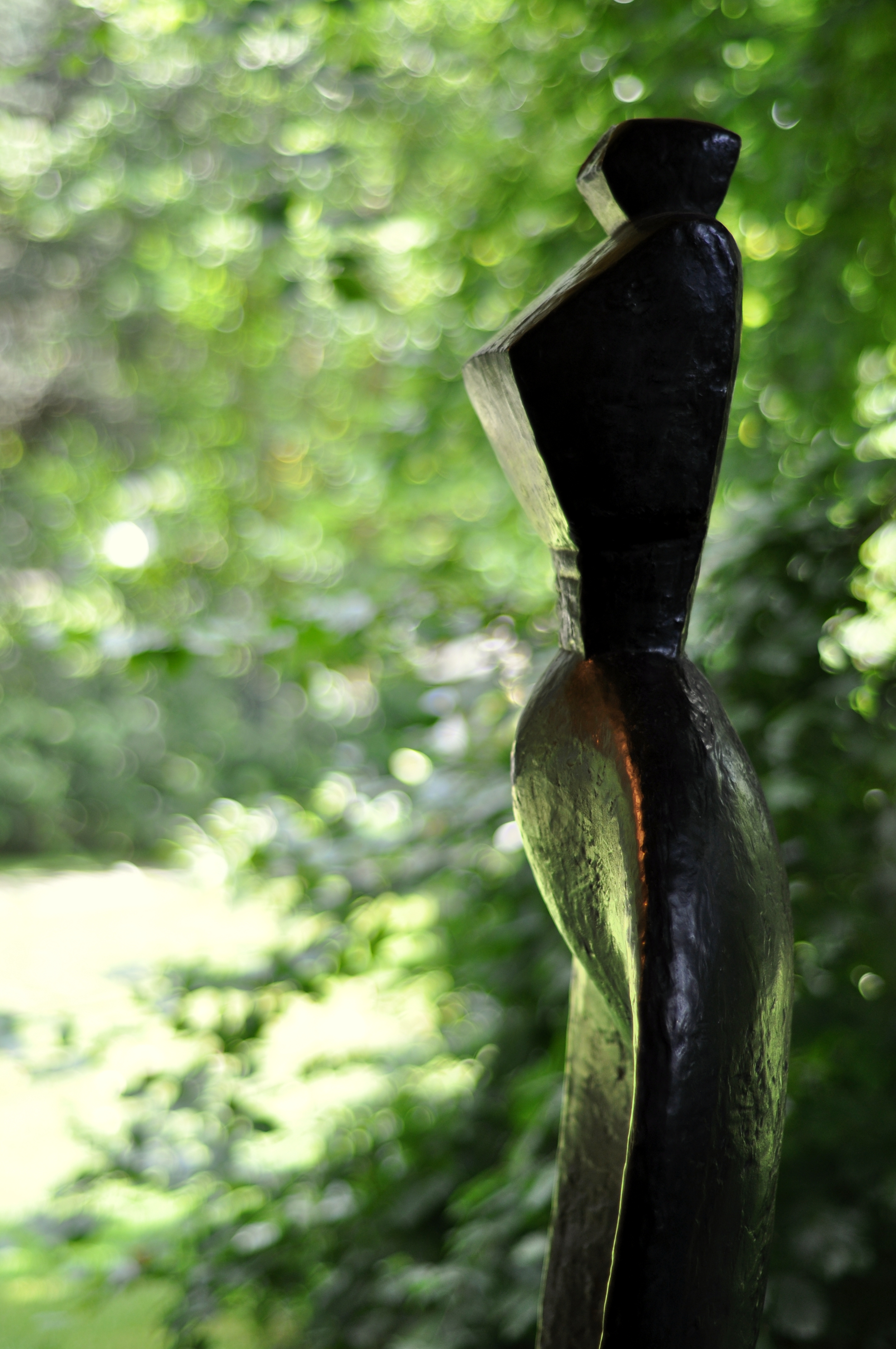 Lousiana Art Museum, Humlebaek, DenmarkThe Louisiana Museum of Modern Art is an art museum located directly on the shore of the Øresund Sound in Humlebæk, 35 km (22 mi) north of Copenhagen, Denmark. It is the most visited art museum in Denmark[2] with an e